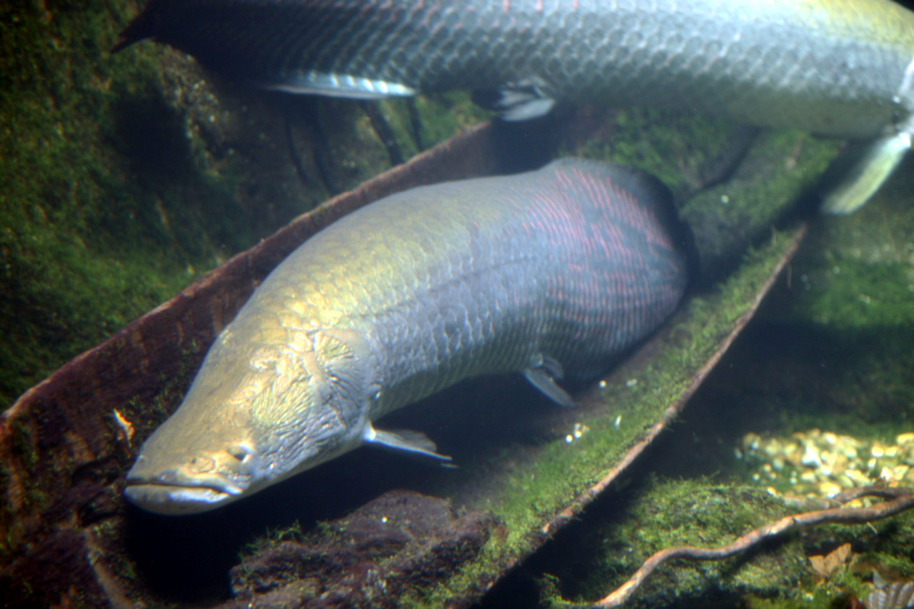 The Arapaima's life cycle is greatly affected by the seasonal flooding. Half of the year the arapaima experiences an abundance of water; however, the other half of the year the arapaima experiences drought conditions. The arapaima lays its eggs during the months of February, March, and April when the water levels are low. They build a nest approximately 50 cm wide and 15 cm deep, usually in sandy bottomed areas. As the water rises the eggs hatch and the offspring have the flood season to prosper, during the months of May to August.